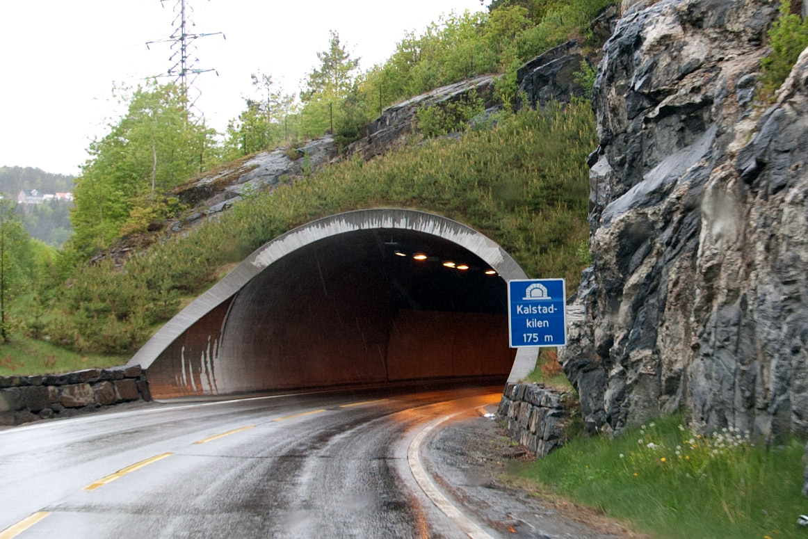 Kalstadkilen tunnel on county road 38, Kragerø, Telemark, Norway